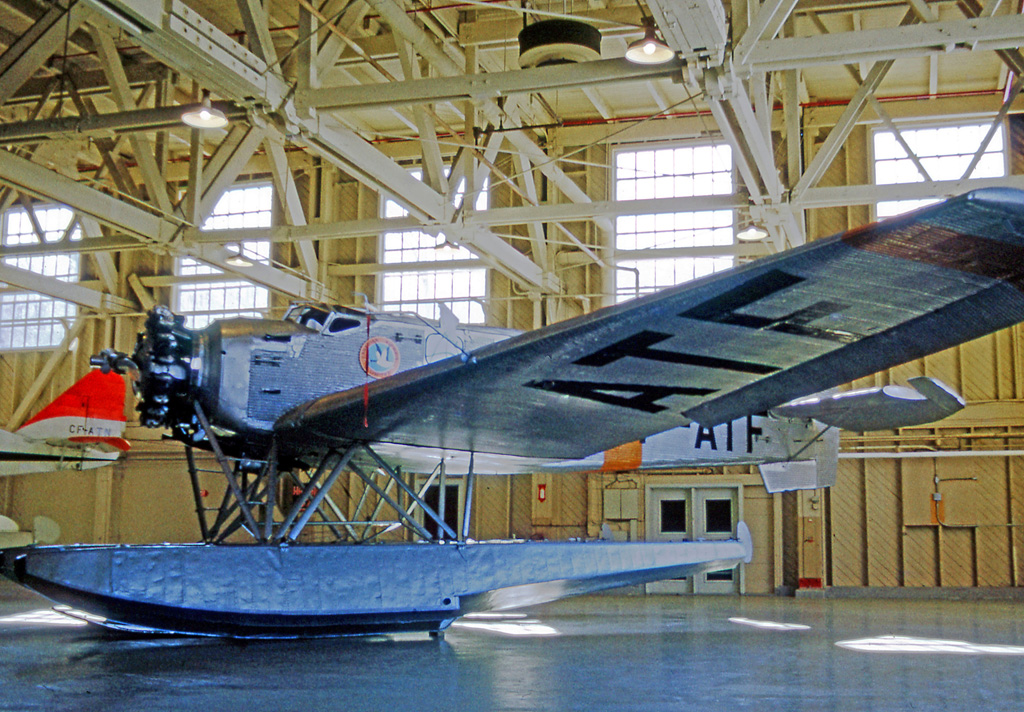 Junkers W.34 CF-ATF of Canadian Airways displayed at Rockcliffe Ottawa in 1971